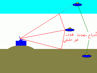 Radar multipath echoes from an actual target cause ghosts to appear below ground or very high up!